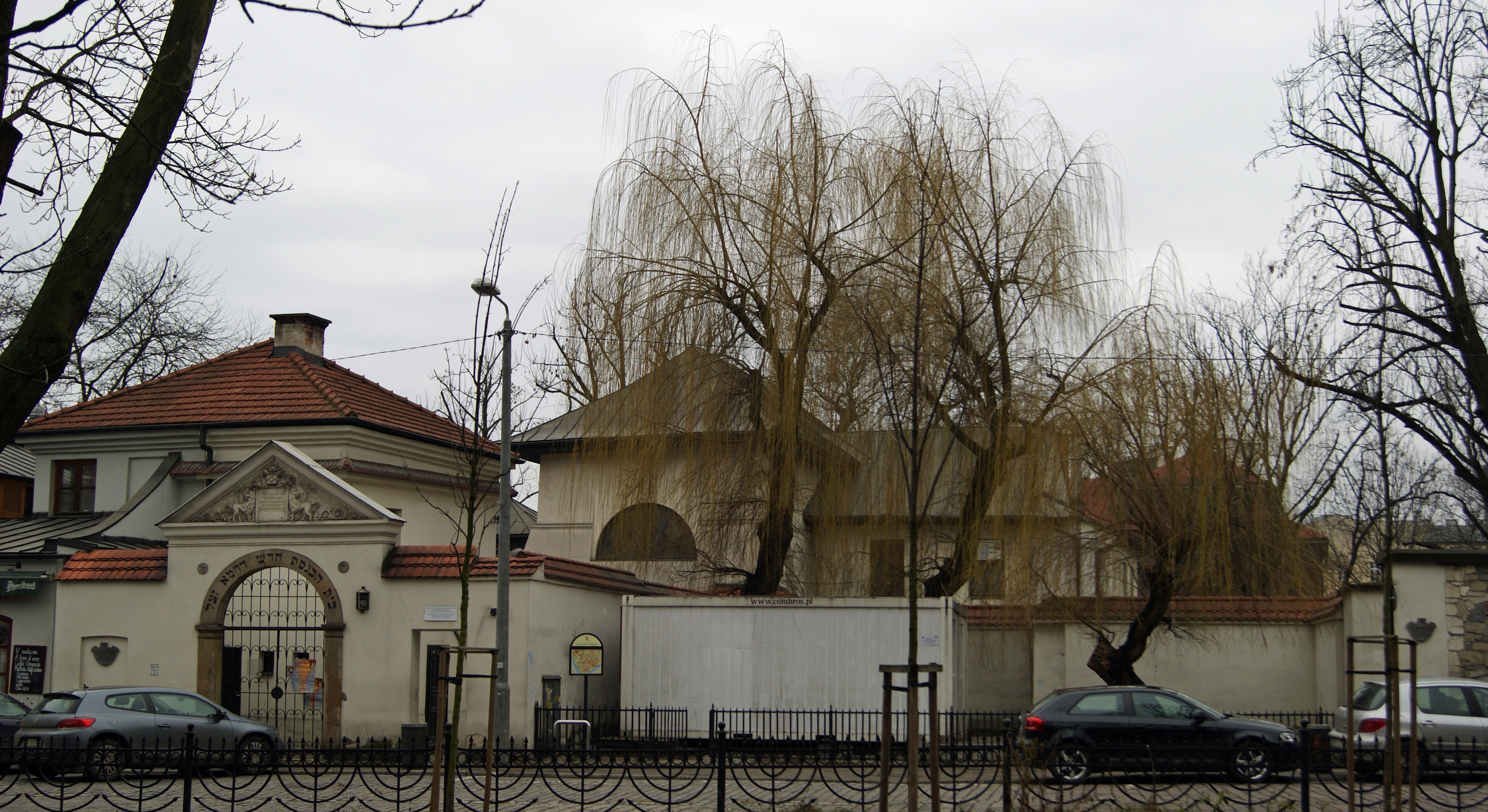 Remuh Synagogue, 40 Szeroka street, Kazimierz, Krakow, Poland